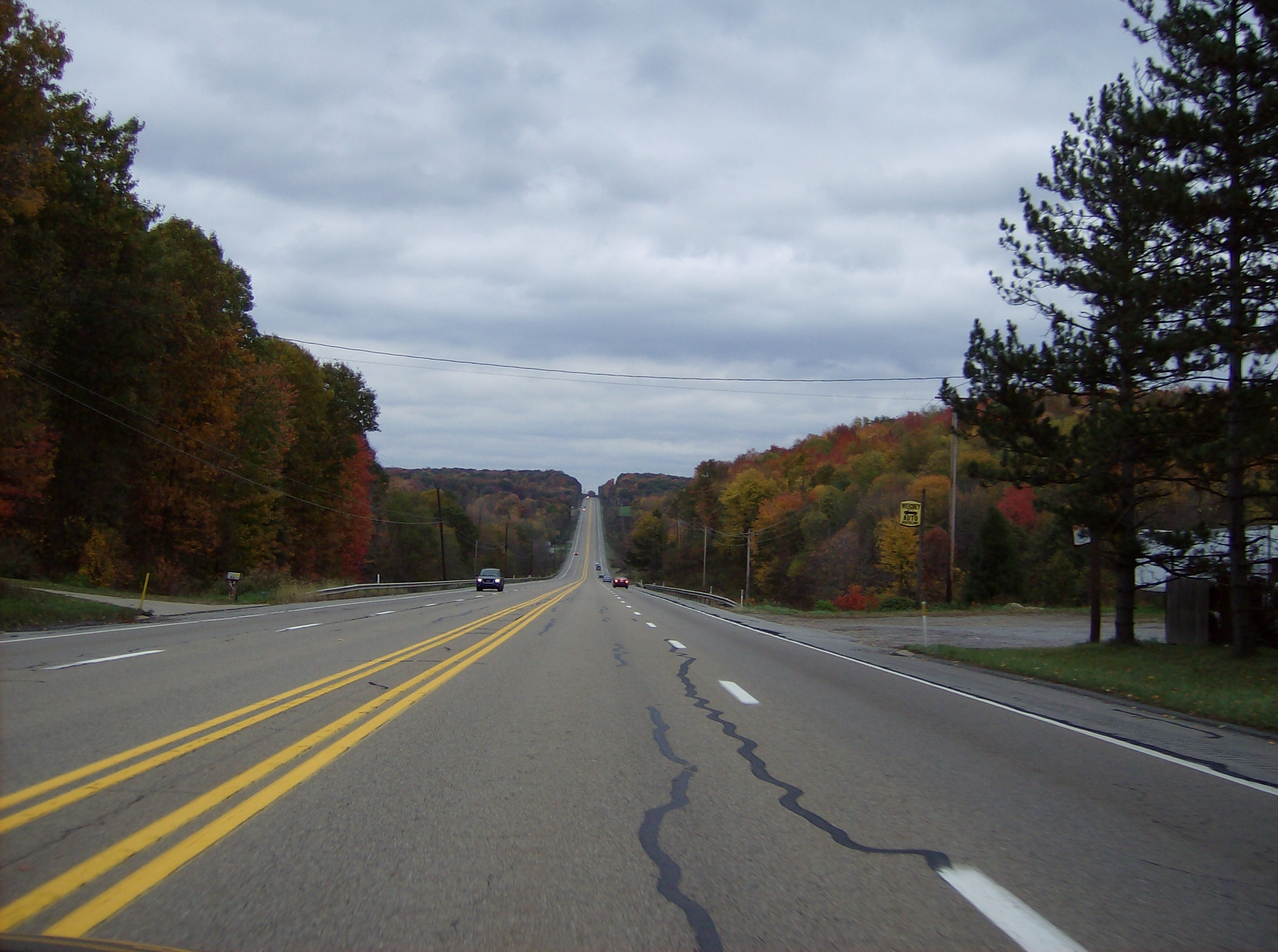 Along eastbound U.S. Route 422 in western Clearfield Township, Butler County, Pennsylvania, United States.